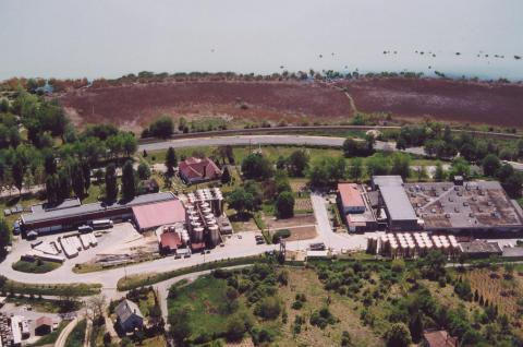 Varga Pincészet (winery) in Badacsonyörs, Badacsonytomaj, Veszprém County, Hungary